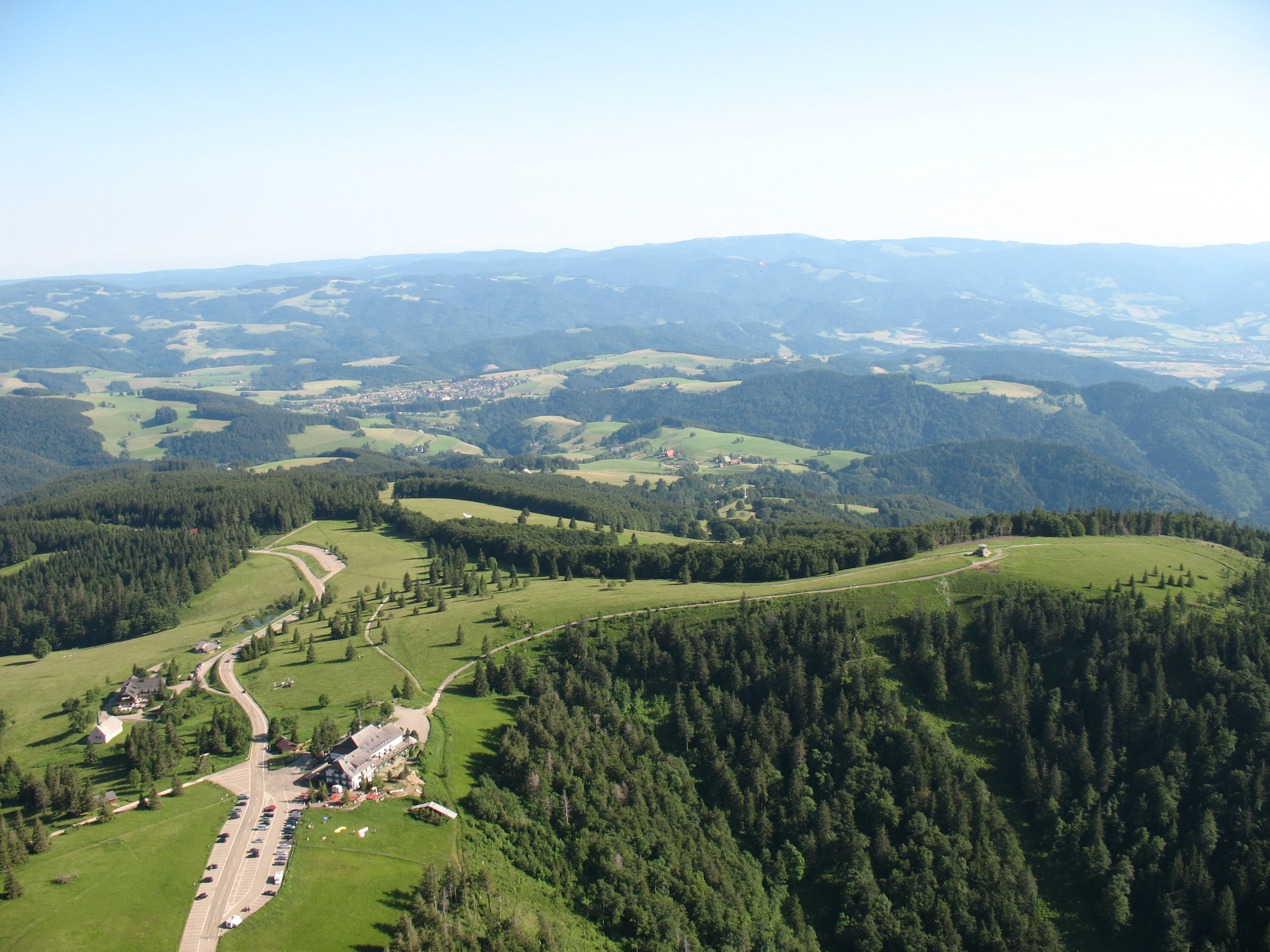 Kandel (mountain in black forest, Germany); on the left side the Kandelhotel near hanggliding/paragliding site, on the right side the summit